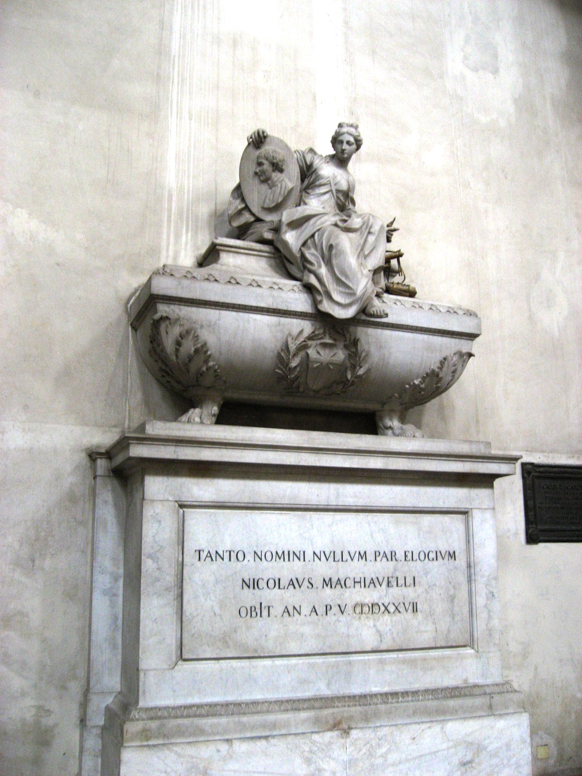 Tomb of Niccolò Machiavelli in the Basilica of Santa Croce in Florence.